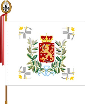 Colour of Carelia Brigade